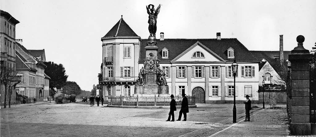 Siegesdenkmal 1880 on its old place wit view to the Habsburgerstraße.